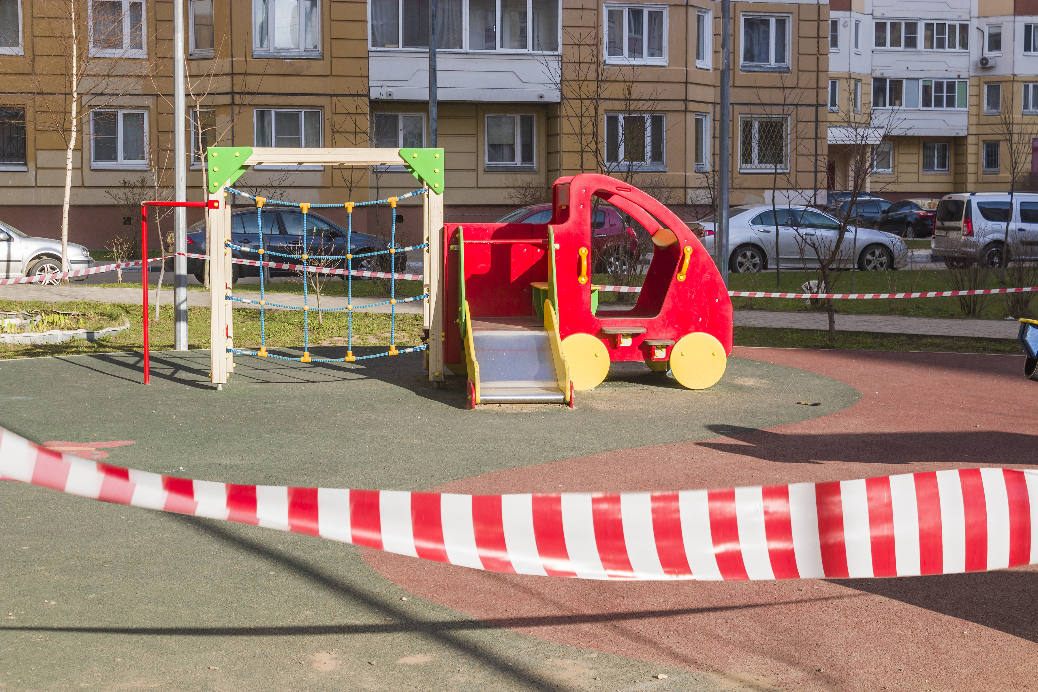 COVID-19. A quarantined Playground. A measure to prevent the spread of coronovirus.